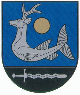 Coat of arms of Zarasai, Lithuania. This image was taken from International Civic Heraldry. For consistency it was converted to gif format (color depth was reduced for some pictures). It shows coat of arms of Zarasai city.